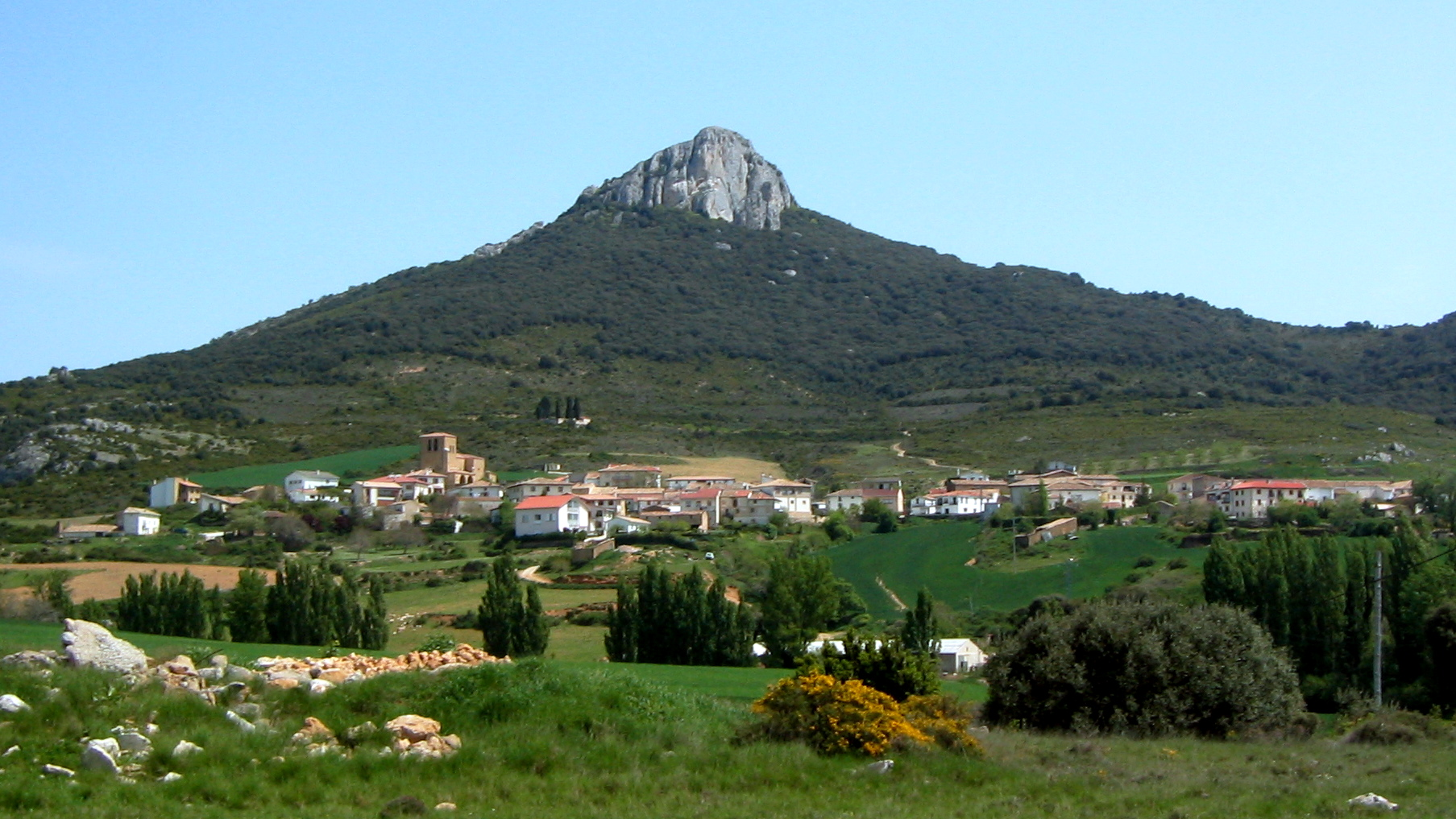 View of Unzué in a sunny spring day.